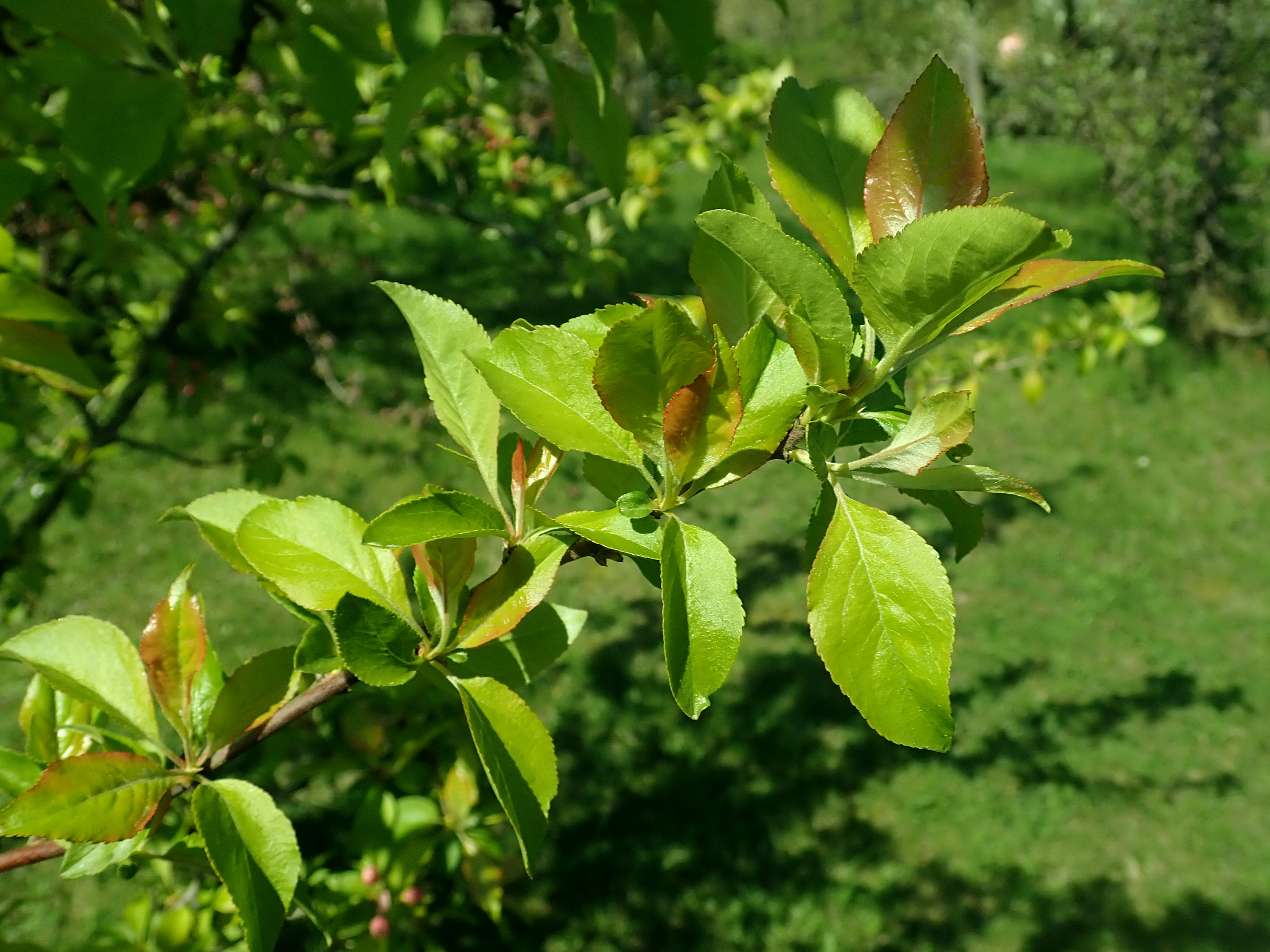 Malus sieversii, Berlin-Dahlem Botanical Garden.